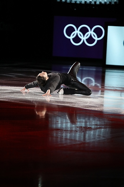 Gala exhibition at the 2018 Winter Olympics